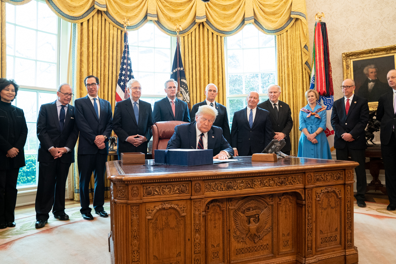 President Donald J. Trump and Vice President Mike Pence are joined by Senate Majority Leader Mitch McConnell; House Minority Leader Rep. Kevin McCarthy; Secretary of the Treasury Steven Mnuchin; Secretary of Agriculture Sonny Perdue; Secretary of Labor Eugene Scalia; Secretary of Transportation Elaine Chao; USTR Ambassador Robert Lighthizer; Rep. Kevin Brady, R-Texas; Rep. Greg Walden, R-Ore.; Rep. Steve Chabot, R-Ohio; Assistant to the President and NEC Director Larry Kudlow; White House Director of Legislative Affairs Eric Ueland; White House Coronavirus Task Force Coordinator Ambassador Deborah Birx and Task Force member Dr. Anthony Fauci, as President Trump signs the $2.2 trillion assistance package to help American workers, small businesses and industries crippled by the economic disruption caused by the coronavirus (COVID-19) outbreak. (Official White House Photo by D.Myles Cullen)